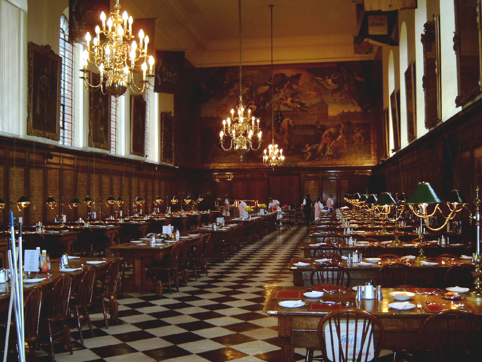 The Great Hall of the Royal Chelsea Hospital in London (a retirement home for old soldiers, not a medical hospital).